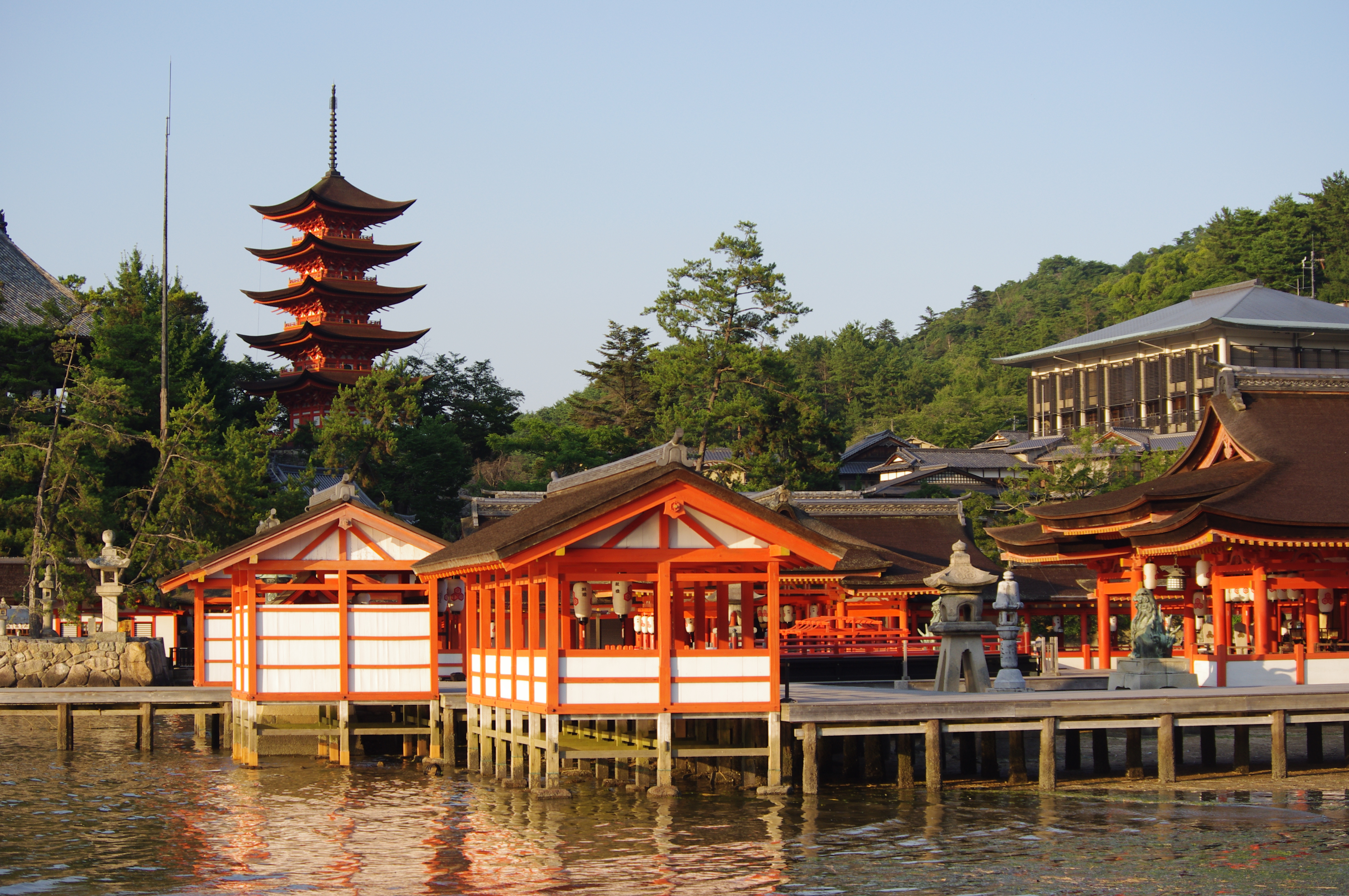 Itsukushima Shrine on Miyajima